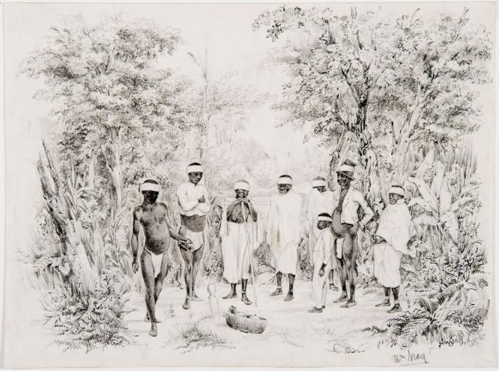 Pencil drawing representing a ritual on a cemetery